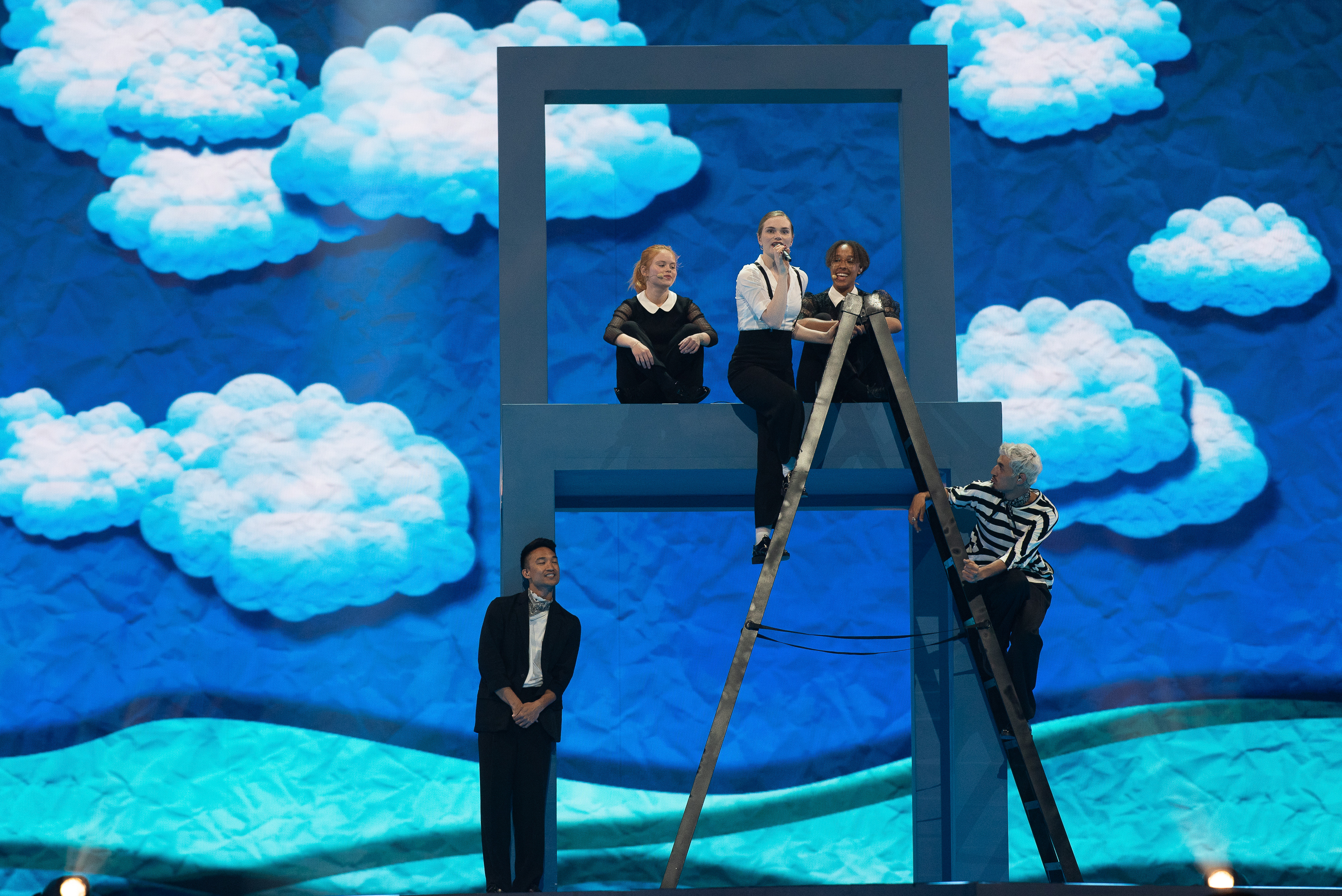 Leonora representing Denmark with the song "Love Is Forever" during a rehearsal before the grand final of the Eurovision Song Contest 2019 in Tel-Aviv.